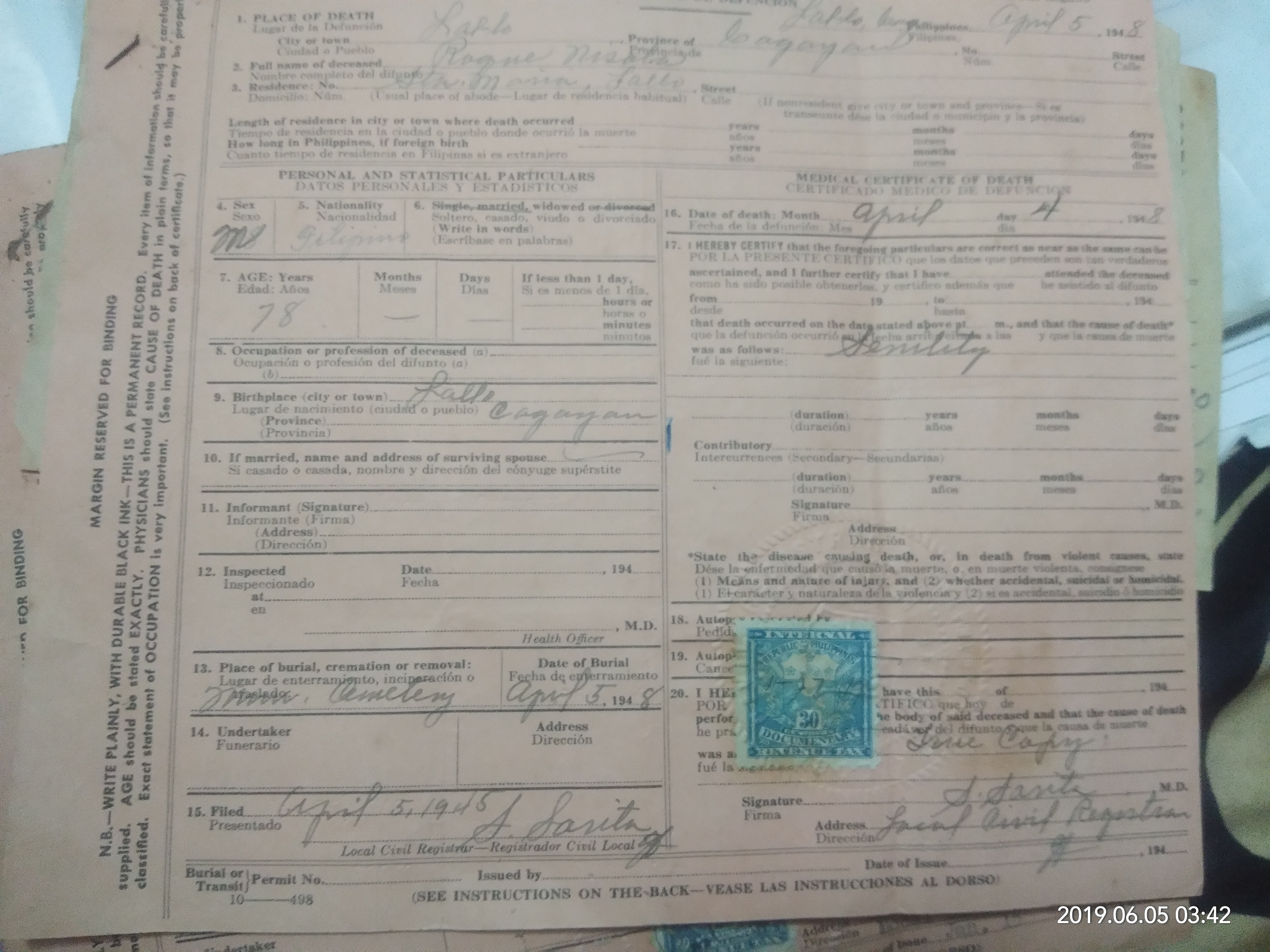 This is an original copy of a Death Certificate issued. Where you can see spanish translation.